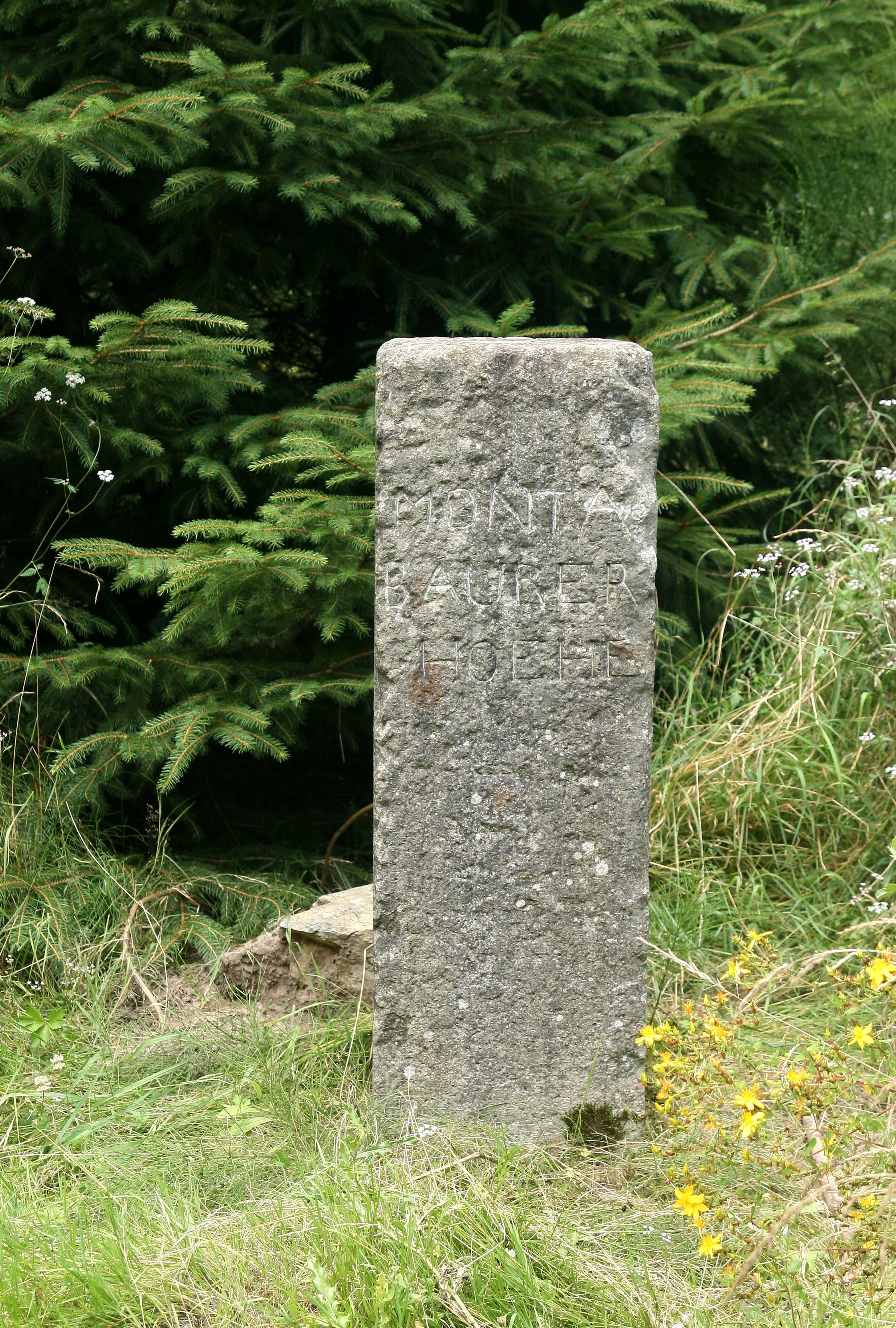 Trigonometrical Point Montabaurer Höhe at Alarmstange mountain in Montabaurer Höhe mountain range in Westerwald region, Germany. Errected in 1853 and later used for cartographic work, e.g., in 1894 for Preußische Landesaufnahme. In 1969 moved by 5 metres for a new marker.